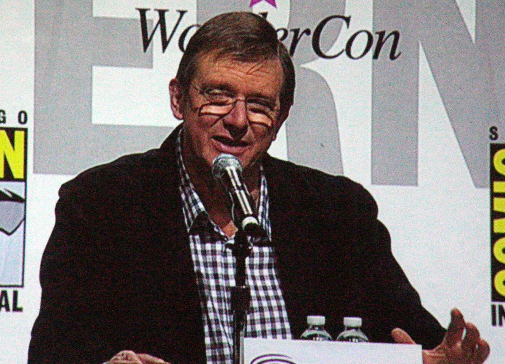 Mike Newell, director of Prince of Persia: The Sands of Time, discusses the film at a panel at WonderCon 2010.